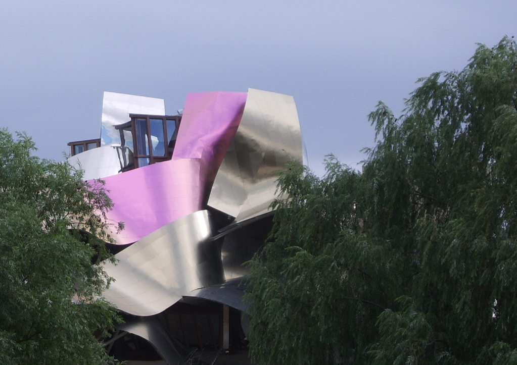 Marques de Riscal wine cellar and hotel in Elciego, Álava, Spain (by architect Frank Gehry)